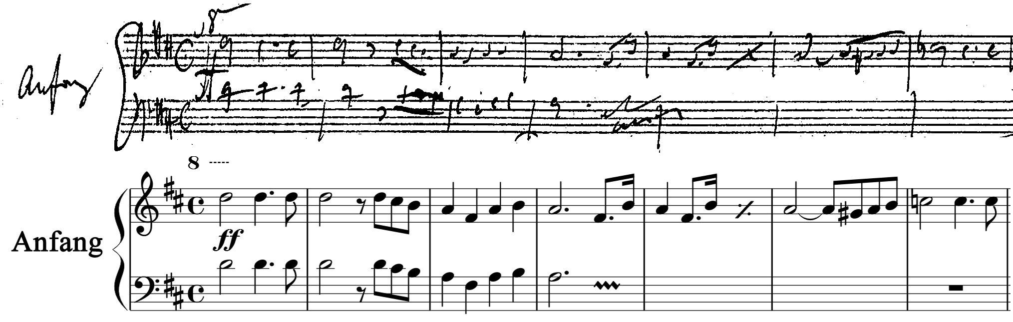 Measures 1-7 of the piano sketch of the first movement of Schubert's Symphony No. 10, followed by their transcription in MuseScore 1.2.